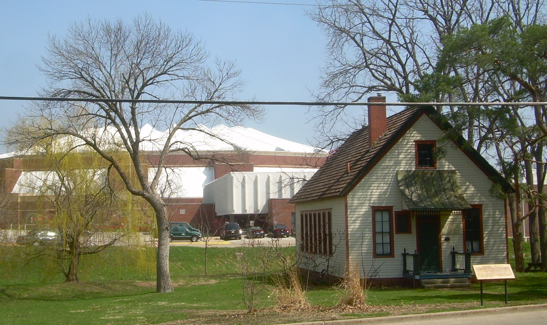 The historic one-room Eyestone School with Redbird Arena in the background on the campus of Illinois State University, Normal, Illinois. Originally the Rose Hill School, this building was moved to this location in 1965 and rededicated to the memory of Lura Eyestone, who taught at a McLean County rural school and at the laboratory school at Illinois State University.